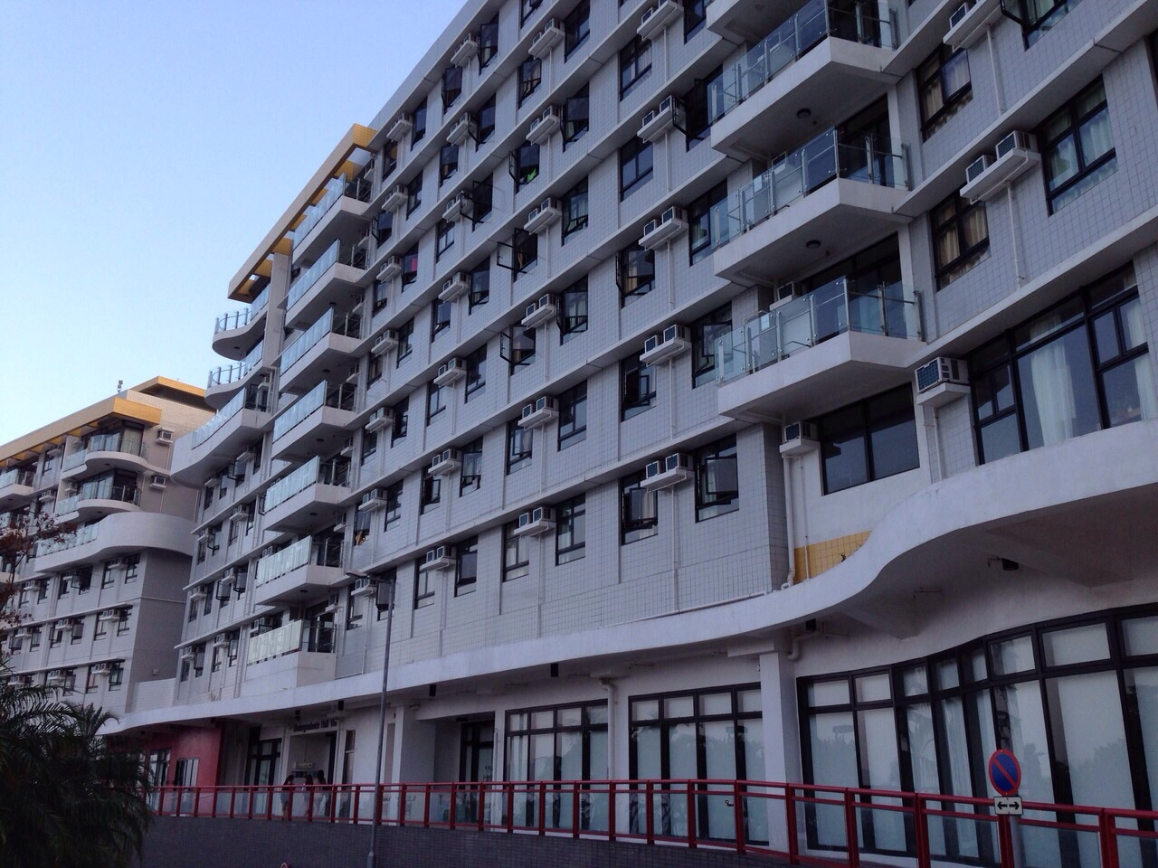 Hall 8 of Hong Kong University of Science and Technology